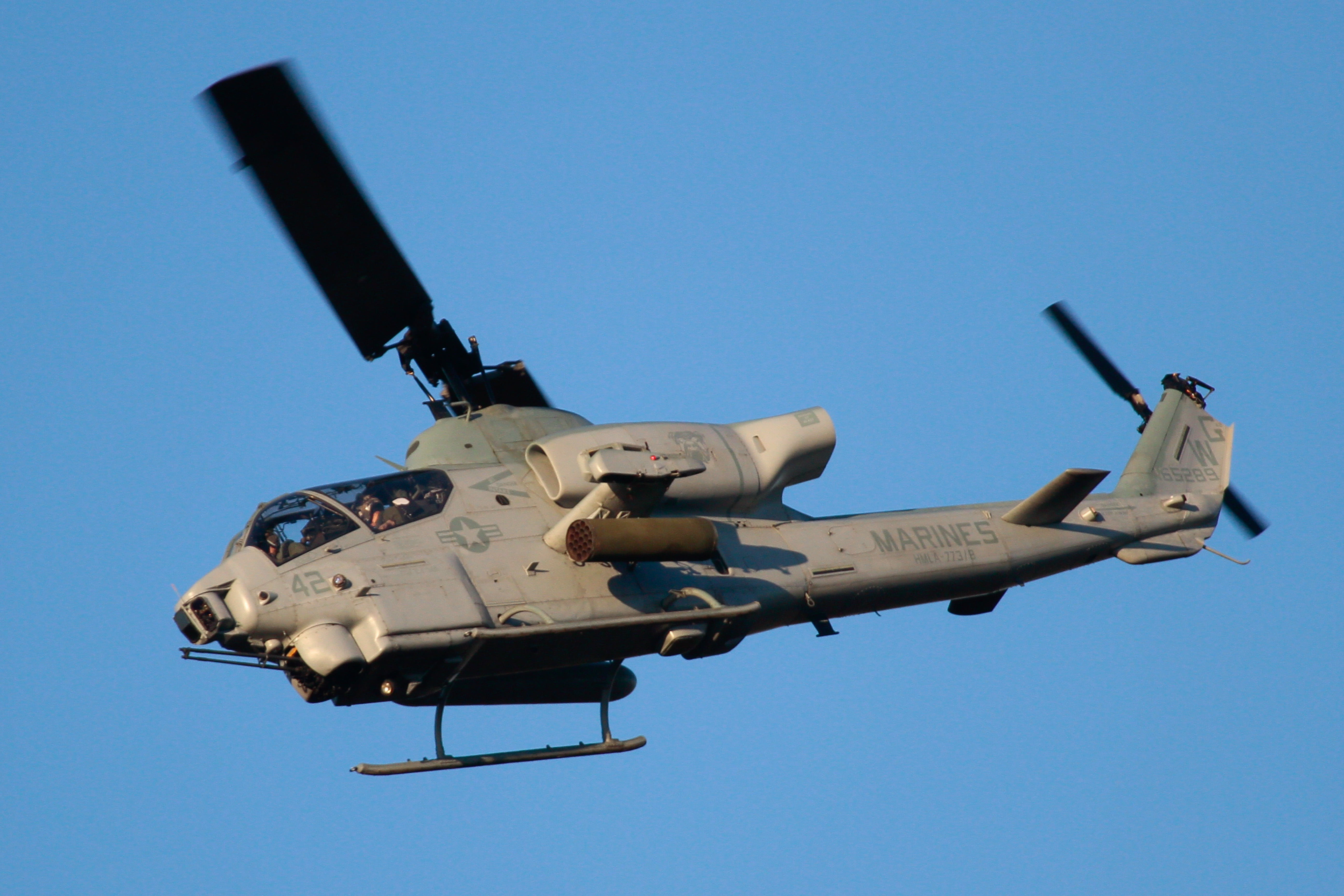 A Marine Corps AH-1W SuperCobra helicopter from HMLA-773 Det. B "Red Dogs" provides close air support during joint terminal attack controller proficiency training at 177th Fighter Wing Det. 1, Warren Grove Gunnery Range, N.J., Dec. 18, 2014. HMLA-773 is based out of Joint Base McGuire-Dix-Lakehurst, N.J. (U.S. Air National Guard photo by Tech. Sgt. Matt Hecht/Released)